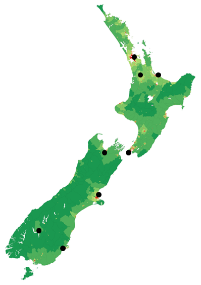 This is a map of George FM frequencies, and population density.